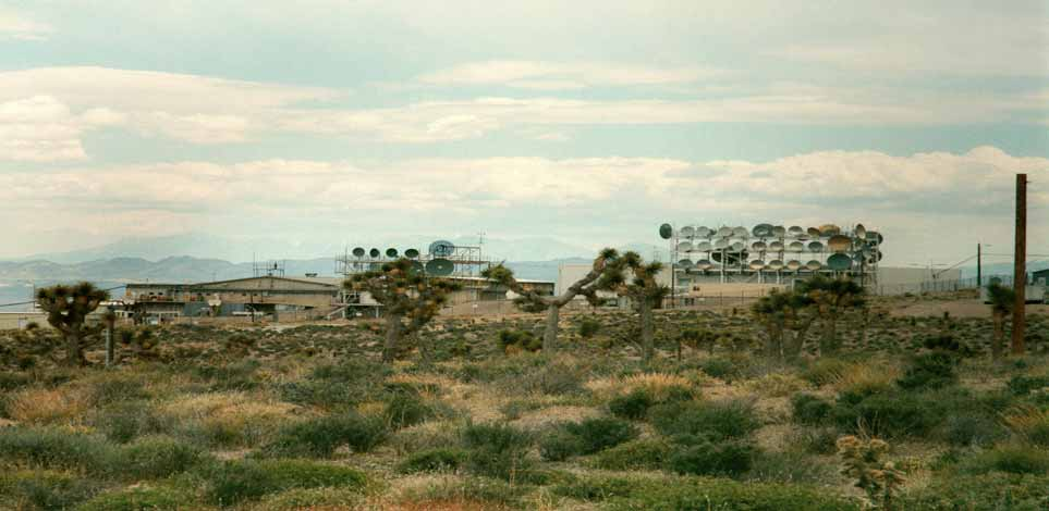 Nevada Test Site, Area 6. Control Point. Built in 1951, the Control Point was the principal command and firing control point for the 928 tests which were conducted at the Nevada Test Site.